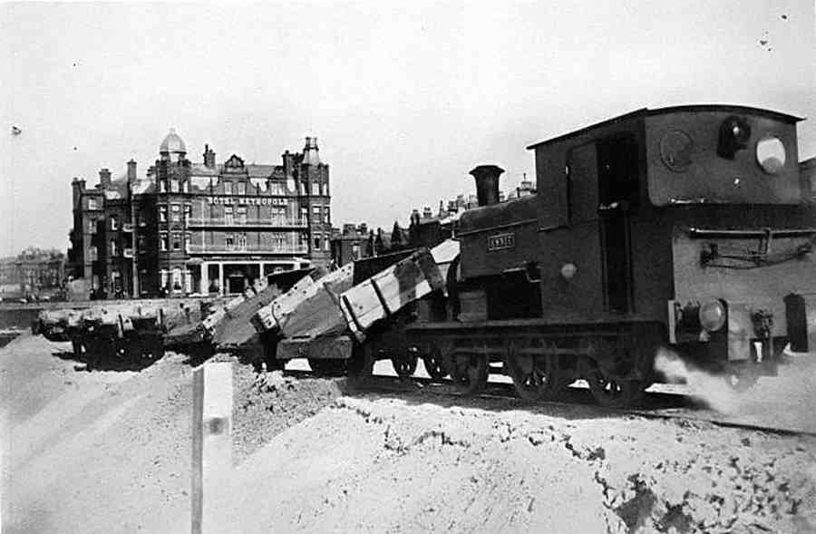 A Photograph and originally published as a postcard in 1911. Taken from Promenade Looking Towards Hotel Metropole (now the Grand Metropole Hotel) - Unknown Original creator and likely to pass both UK-PD (75 years since death of creator) and UK-PD-Unknown (Unknown Creator 70 Years since first Published)